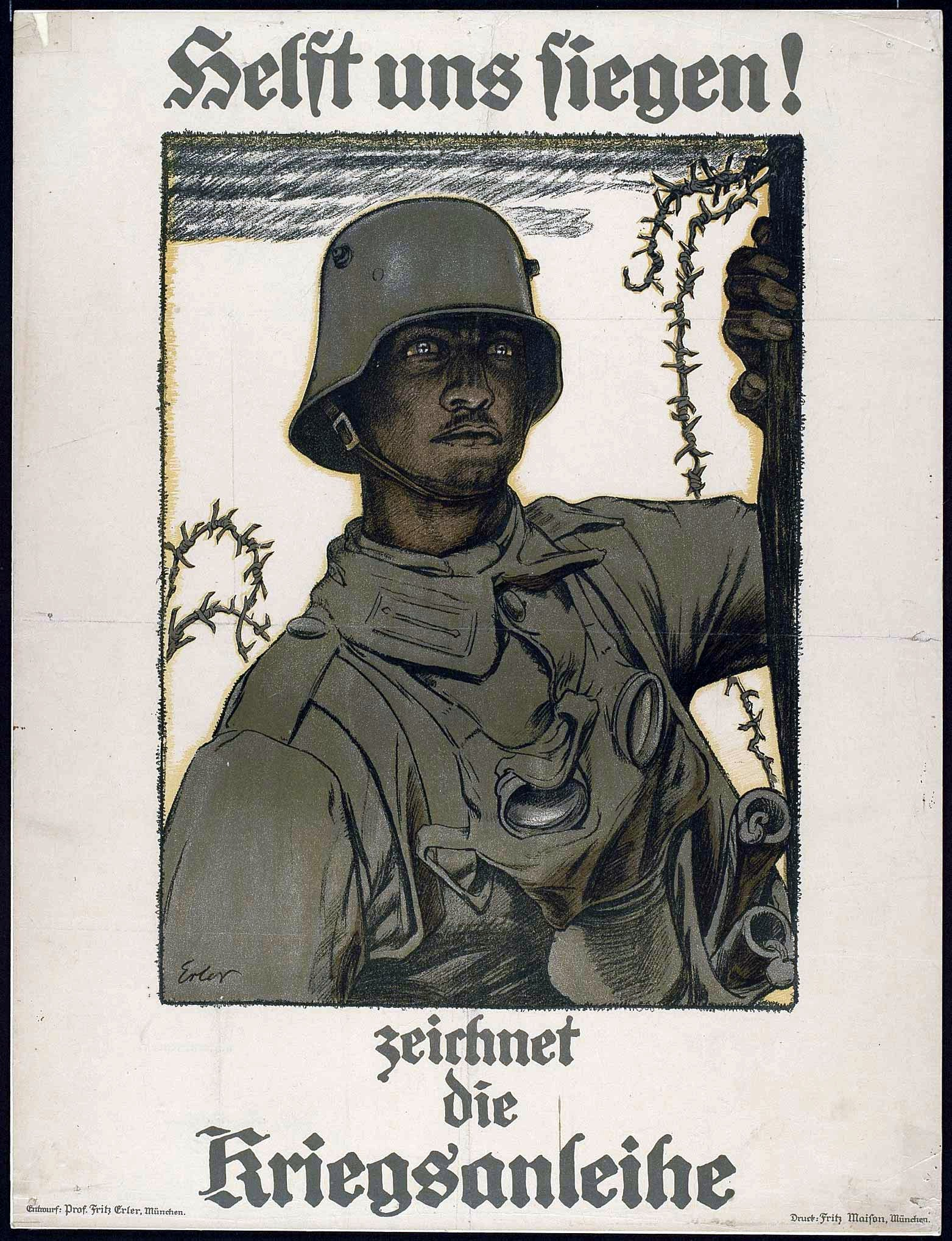 Poster for a German war bond during the WW1 with a drawing by Fritz Erler. Colored lithography. Printed by Fritz Maison Munich. Help us win - subscribe to the war bond